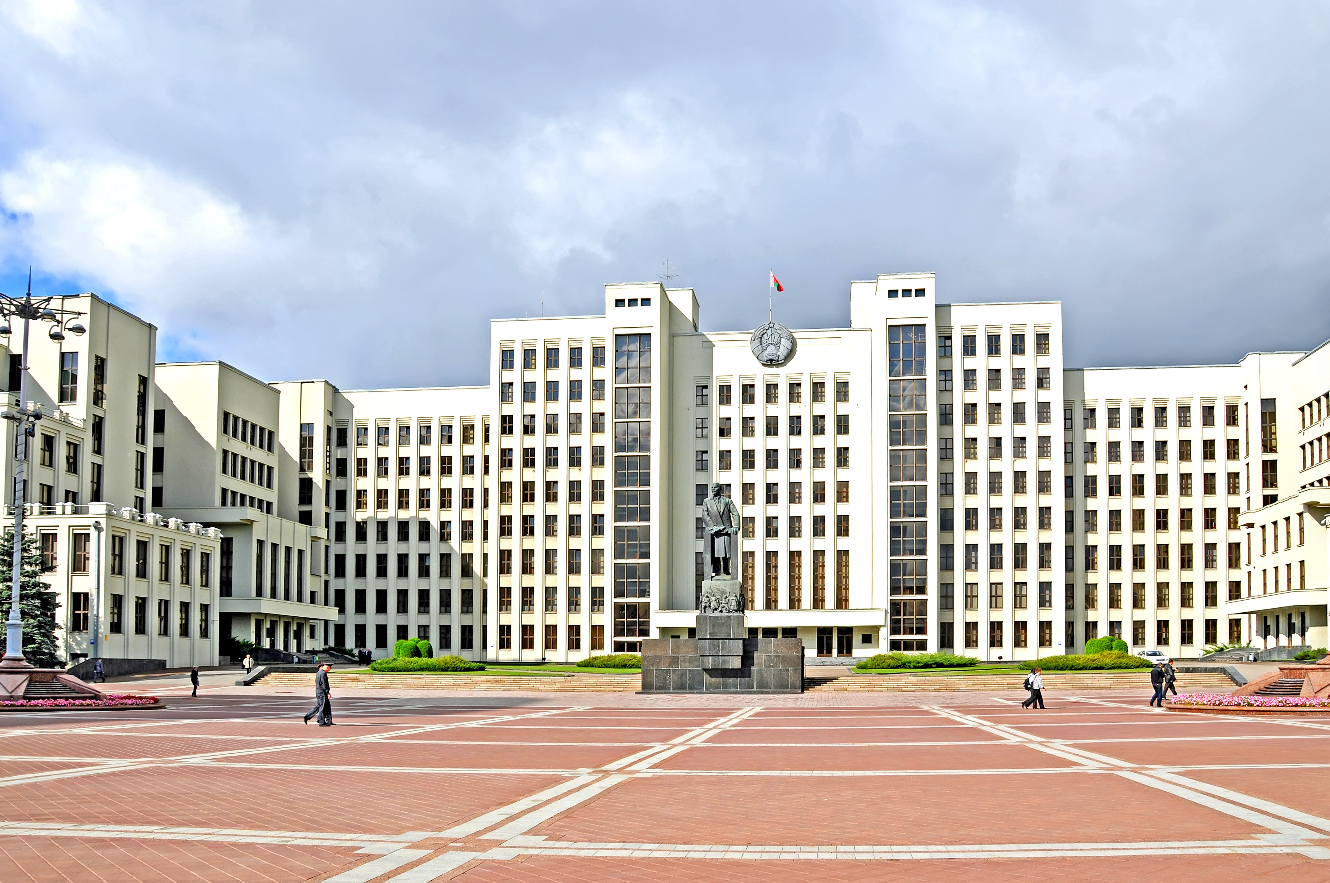 As soon as I had my room at the hotel I went for a walk by myself to see what I could. It has a statue of Vladimir Lenin in the foreground is situated on Independence Square, once called Lenin's Square. This construction was begun in 1930 and completed in 1934. Government House in Minsk is recognized as an important example of the architecture of the period.